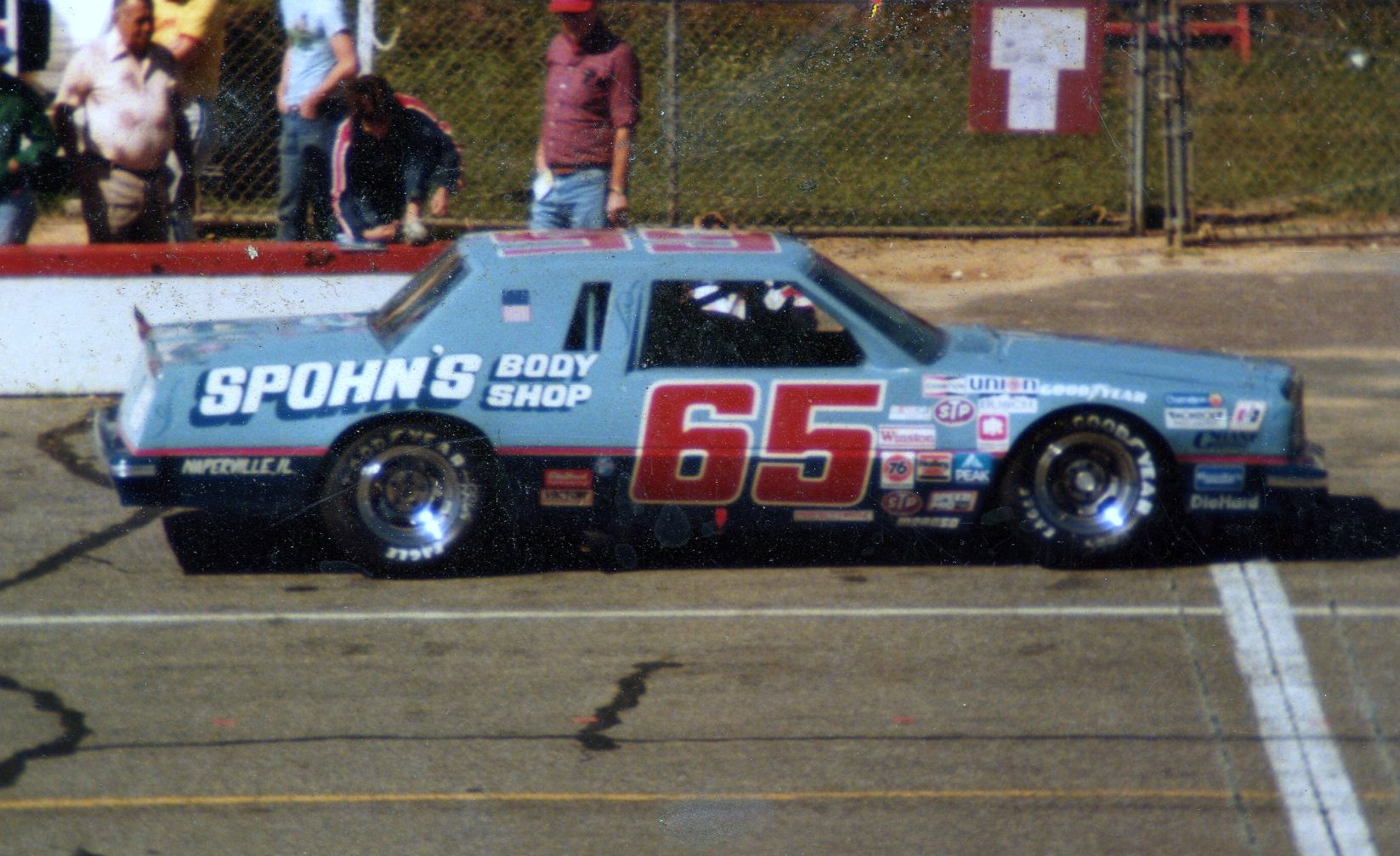 NASCAR driver Glenn Jarrett in 1983 at Pocono. He ran the final of his 10 Winston Cup starts that day.